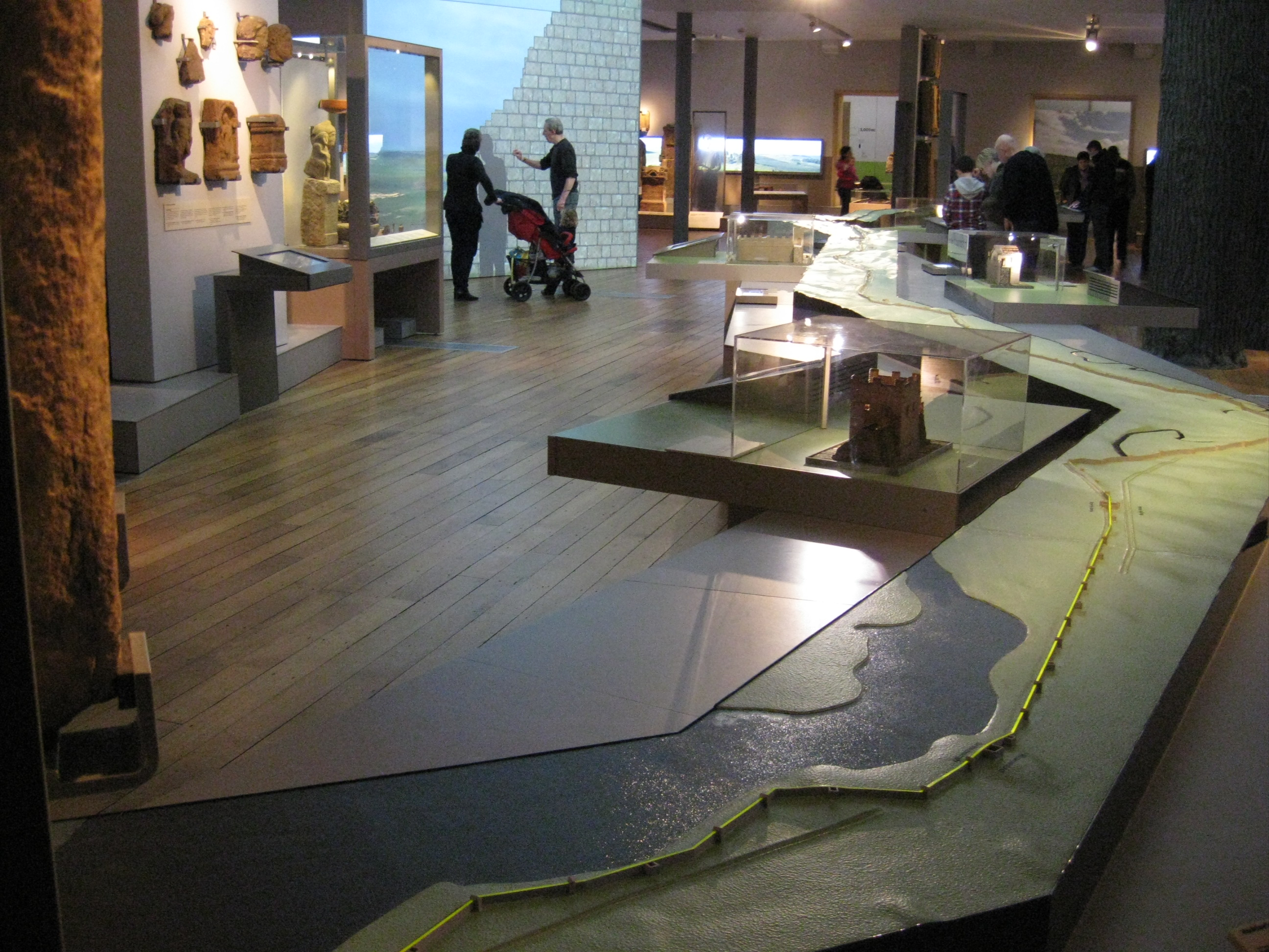 Hadrian's Wall displays at the Hancock Museum, Newcastle-upon-Tyne, UK